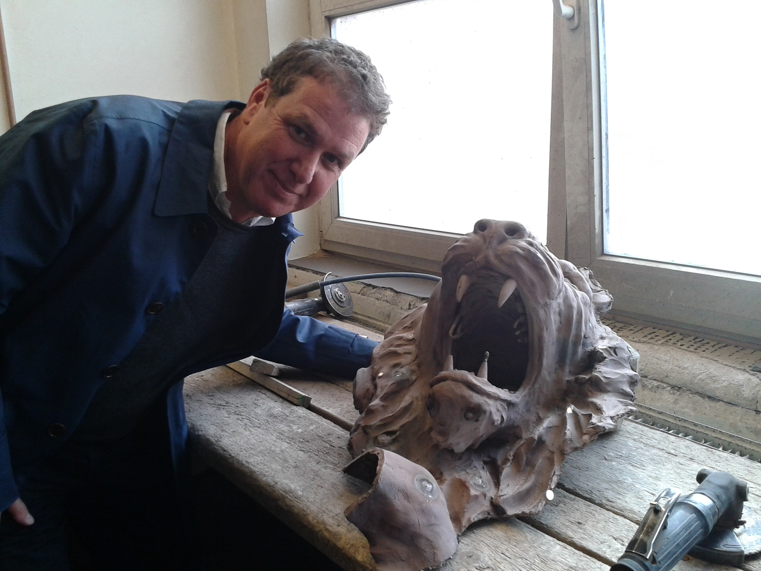 The initiator of the memorial of winged lion is Mr. Euan Edworthy. His father served in the Royal Air Force. Mr. Euan Edworthy lives many years in the Czech republic. The picture shows him in an art foundry in Horní Kalná in the workshop near the mask (head) of a winged lion.